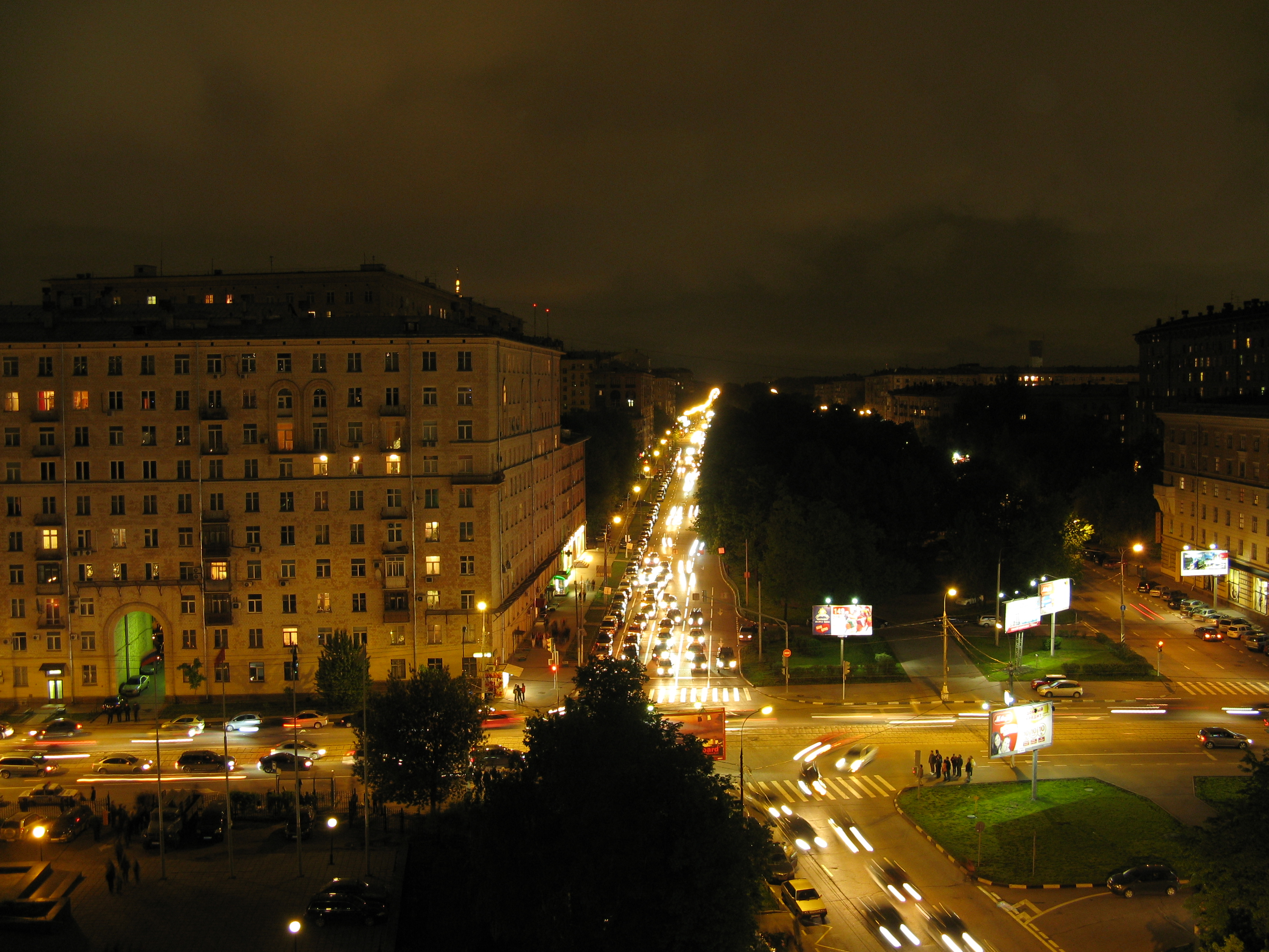 Moscow at night. A cross of Dmitriya Ulyanova Street and Leninsky Prospekt.